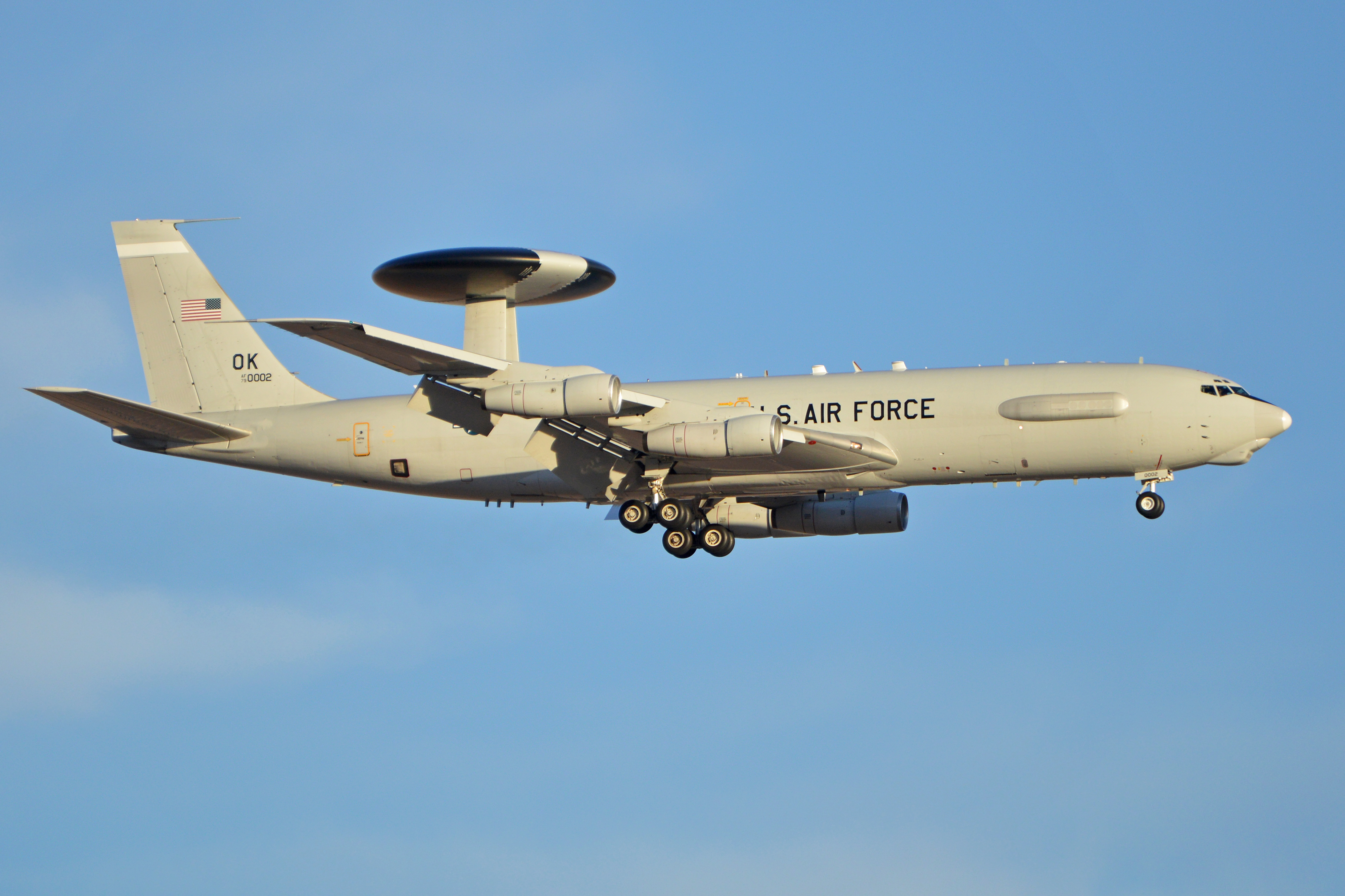 c/n 21756, l/n 943. Operated by the 552nd Air Control Wing based at Tinker AFB, OK. Returning from a mission as part of Red Flag 16-2. Nellis AFB, NV, USA. 1st March 2016